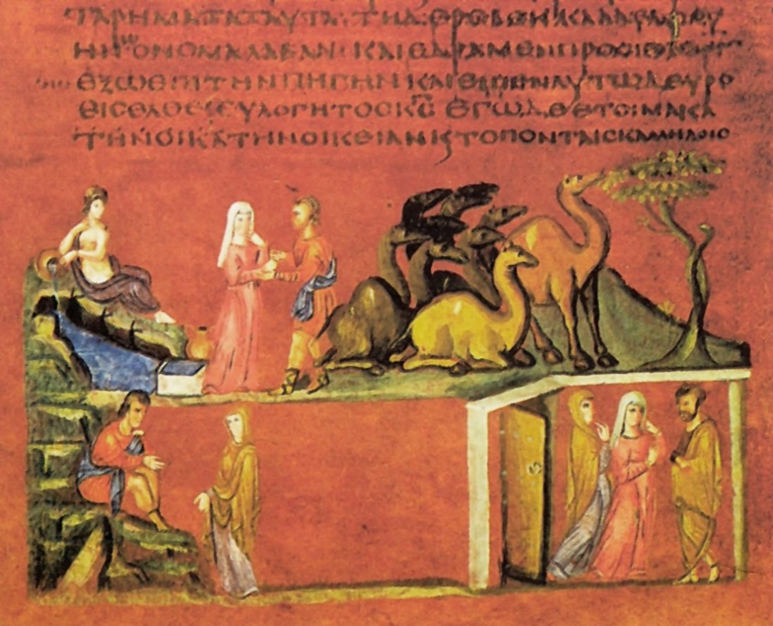 Scenes from the Life of Jacob, Vienna Genesis, p. 14